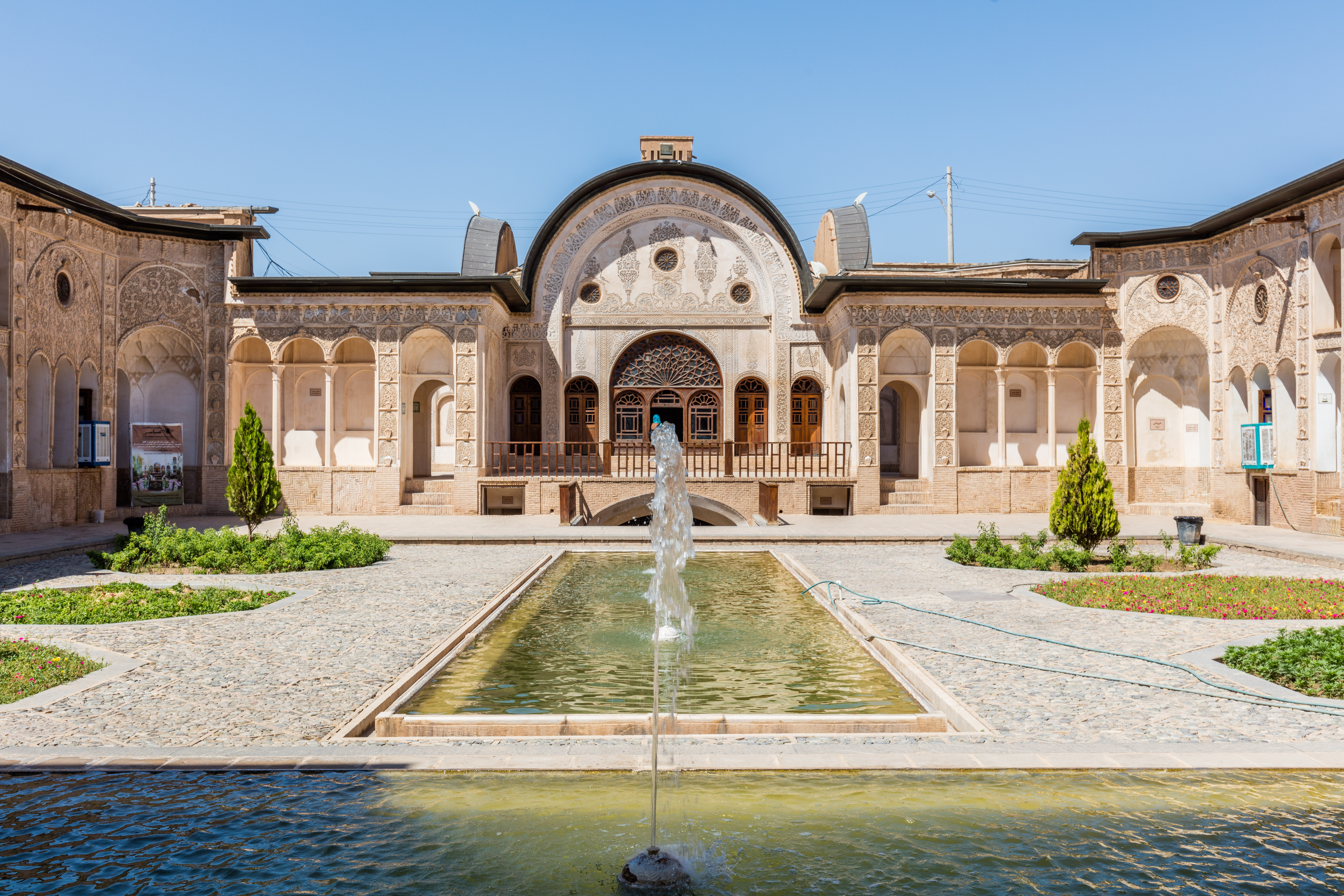 Tabatabaeis Historic House, Kashan, Iran